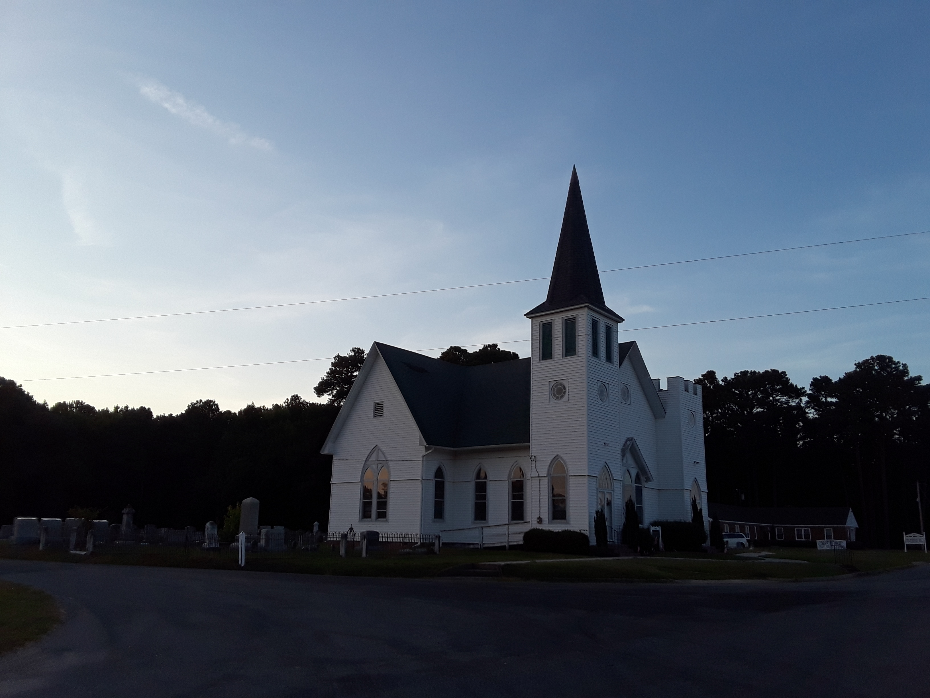 Taken on a visit to the Eastern Shore of Virginia, July 2018